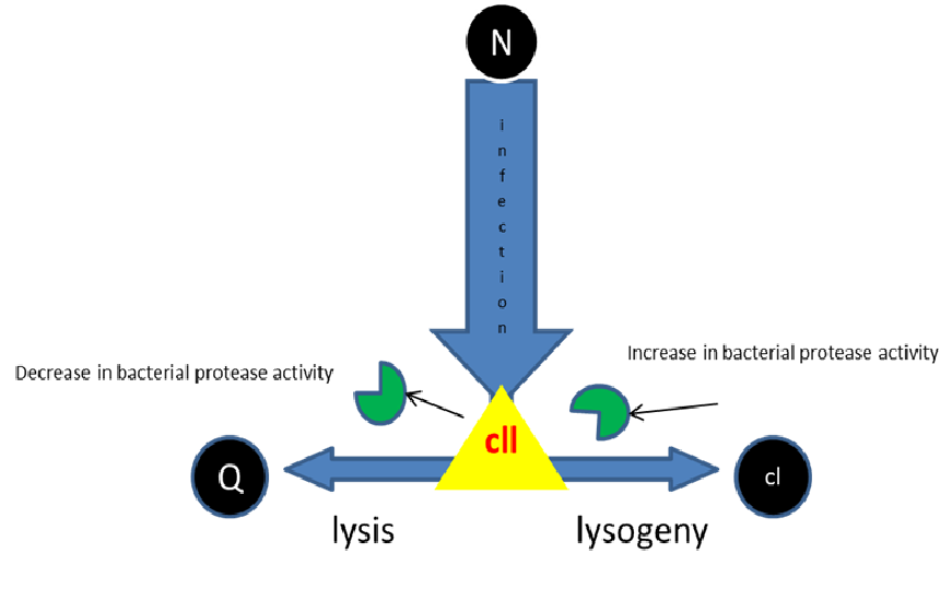 Depicts factors involved in controlling lytic or lysogenic cycles of lambda phage